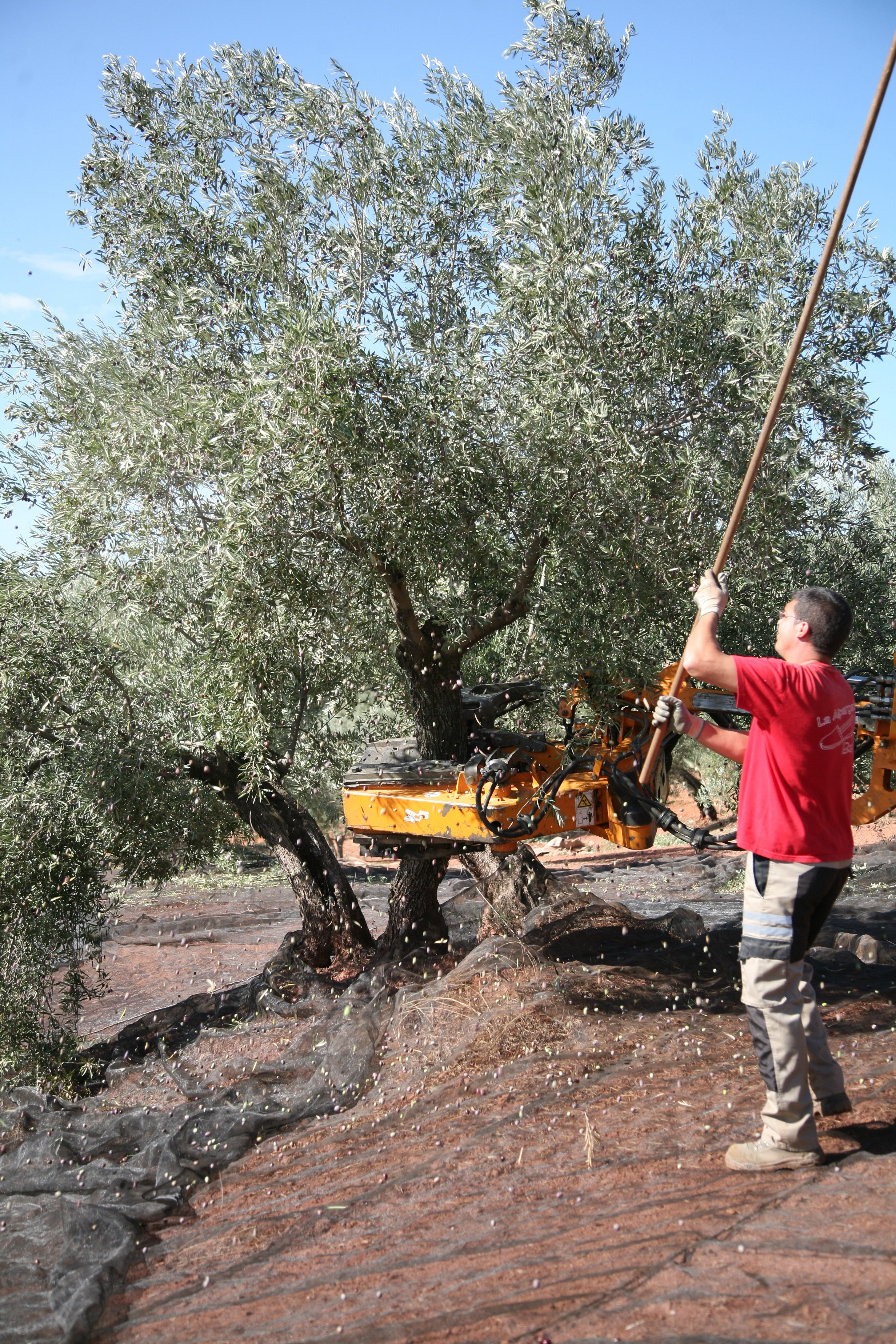 modern way of olive harvest